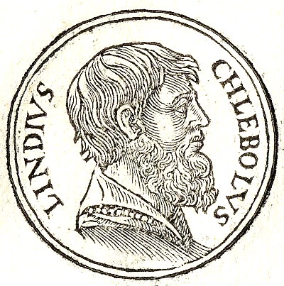 Cleobulus (Greek: Κλεόβουλος, Cleovoulos), the son of Evagoras, was a Greek philosopher and a native of Lindos.